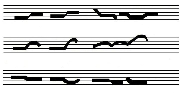 Chopin Etude Op. 10, No 6: graphic sketch of middle section (bars 17 - 41) after Hugo Leichtentritt